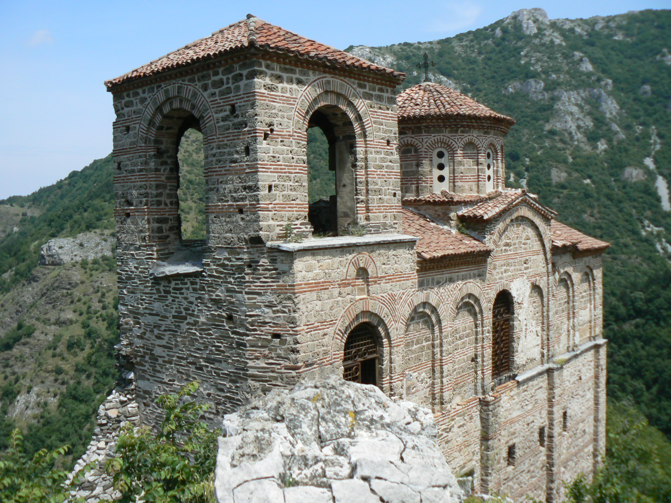 Asenova fortress, Bulgaria